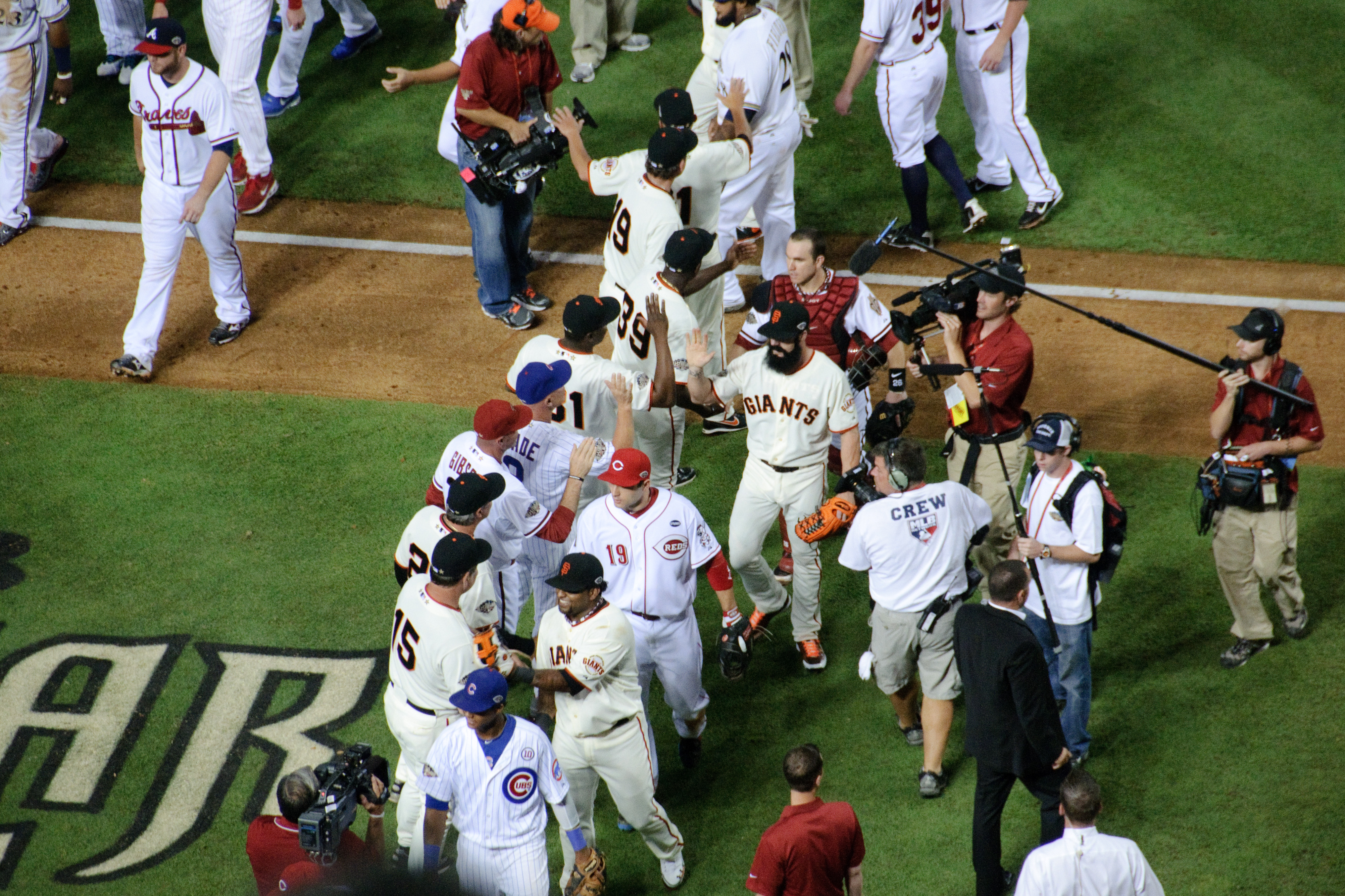 2011 Major League Baseball All-Star Game